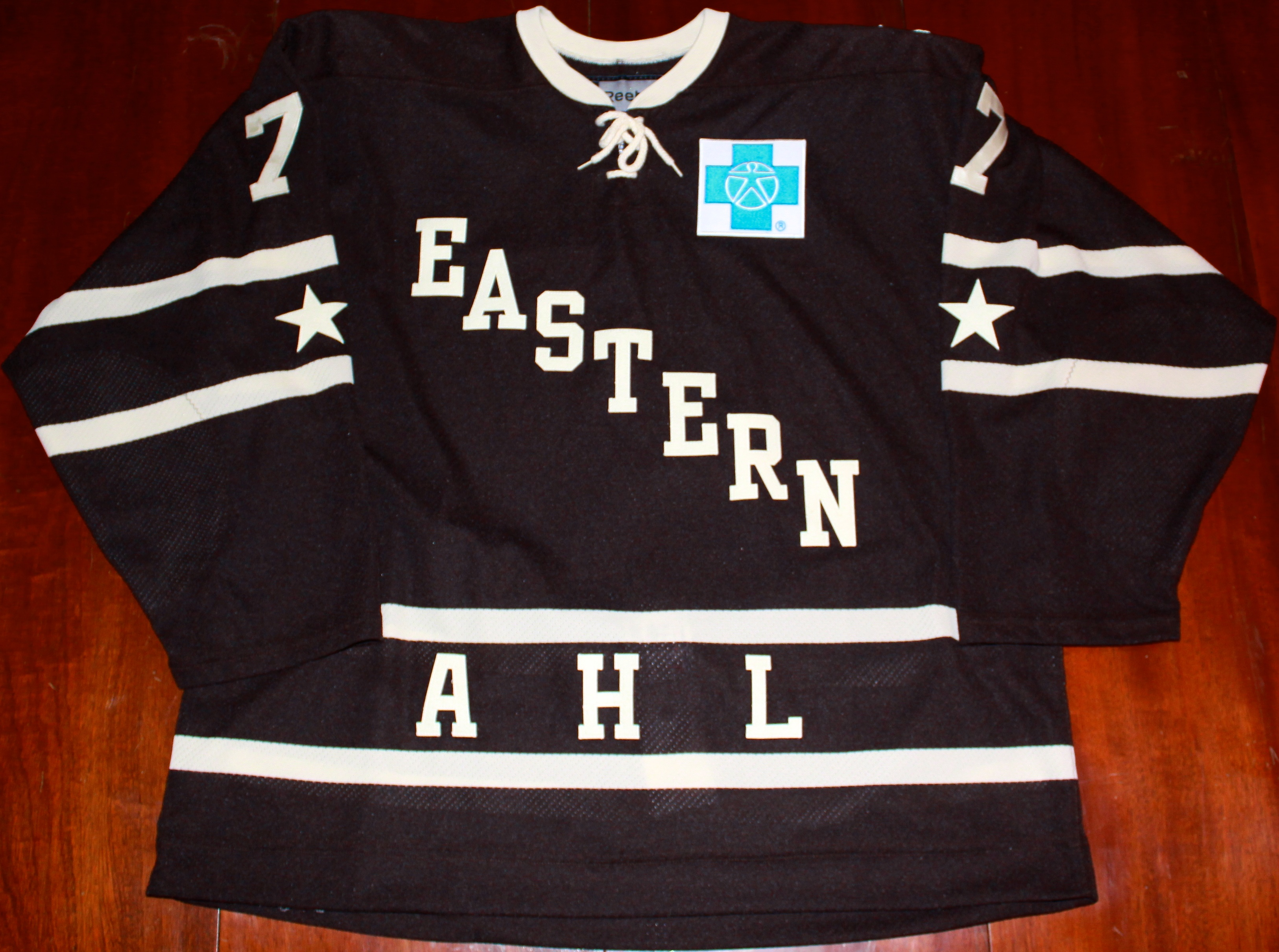 This photo was taken on February 17, 2011 using a Canon EOS 50D.